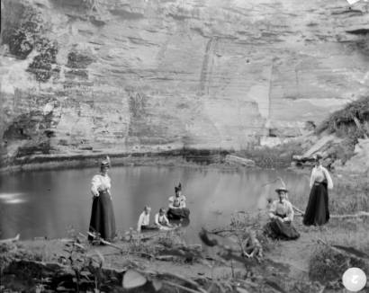 1898 visitors in Minneopa Gorge below Minneopa Falls, Blue Earth County, Minnesota, USA. Image courtesy of Waseca County Historical Society, uploaded with permission.